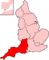 A map of the South West England European Parliament Constituency, first used in the 2004 Euro election. The base map is by Morwen and is GFDL; the inset map of Gibraltar is from Image:BlankMap-World-v6.png and is GFDL. I re-did the France-Spain-Andorra boundry based on Image:BlankMap-World.png, a PD map. Since GFDL was used in two of the three sources, this map is GFDL.